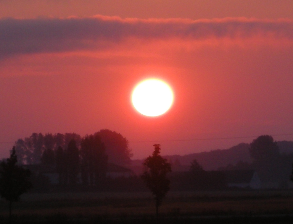 aureole around the sun